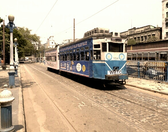 Tram at BBD Bag, Kolkata